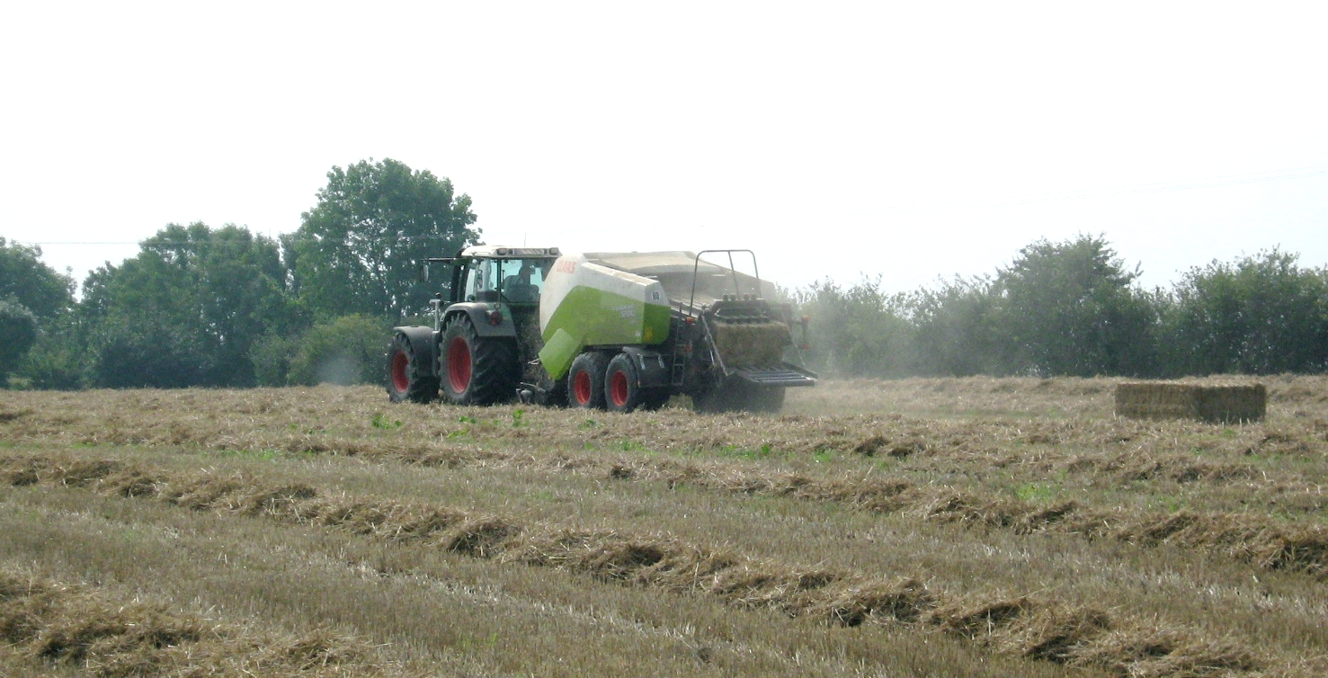 Quad baler